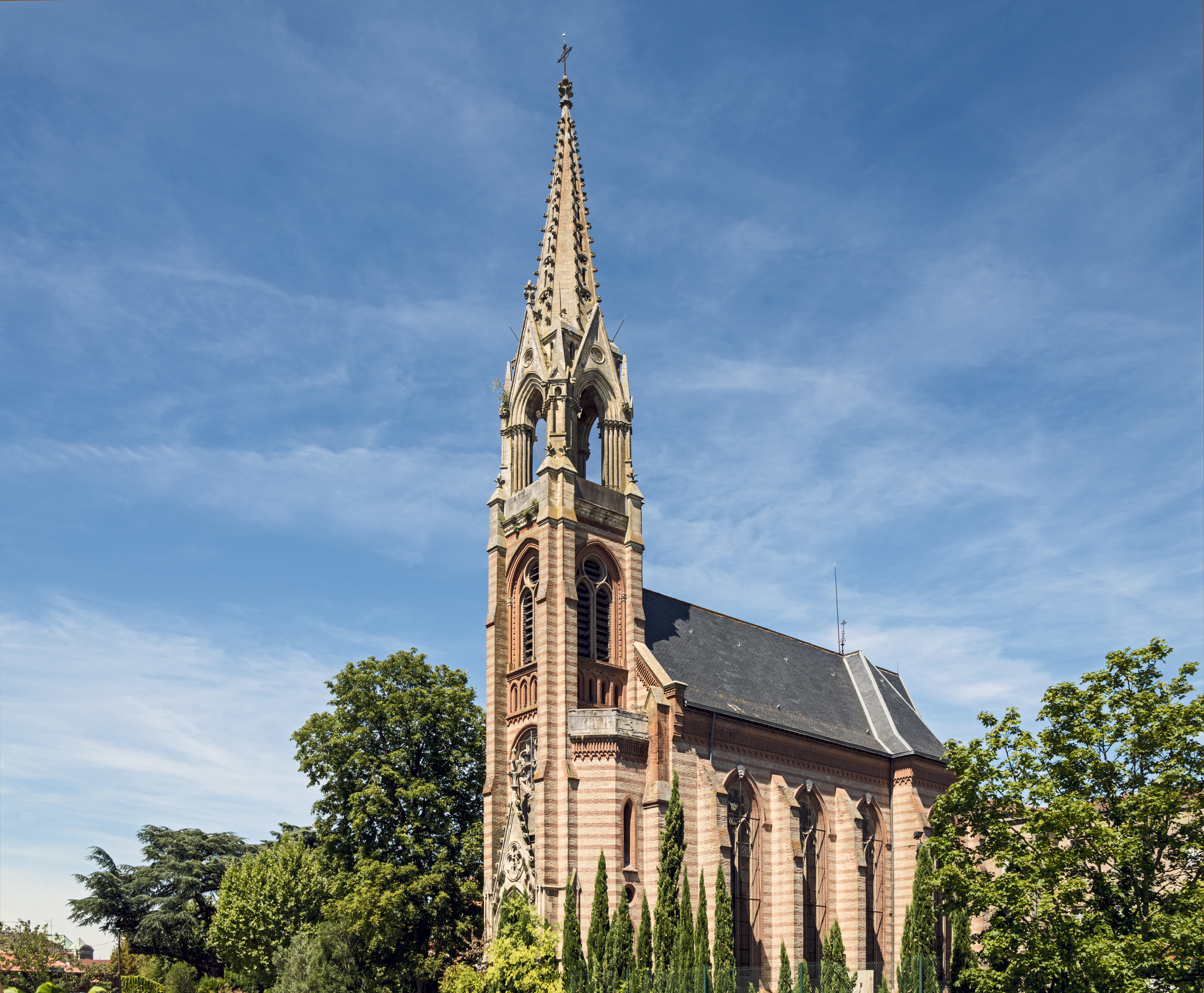 Chapel of the Immaculate Conception. Designed by Theodore Olivier (architect) in neo-Gothic style, begun in 1856 it was over, with the tower in 1863.